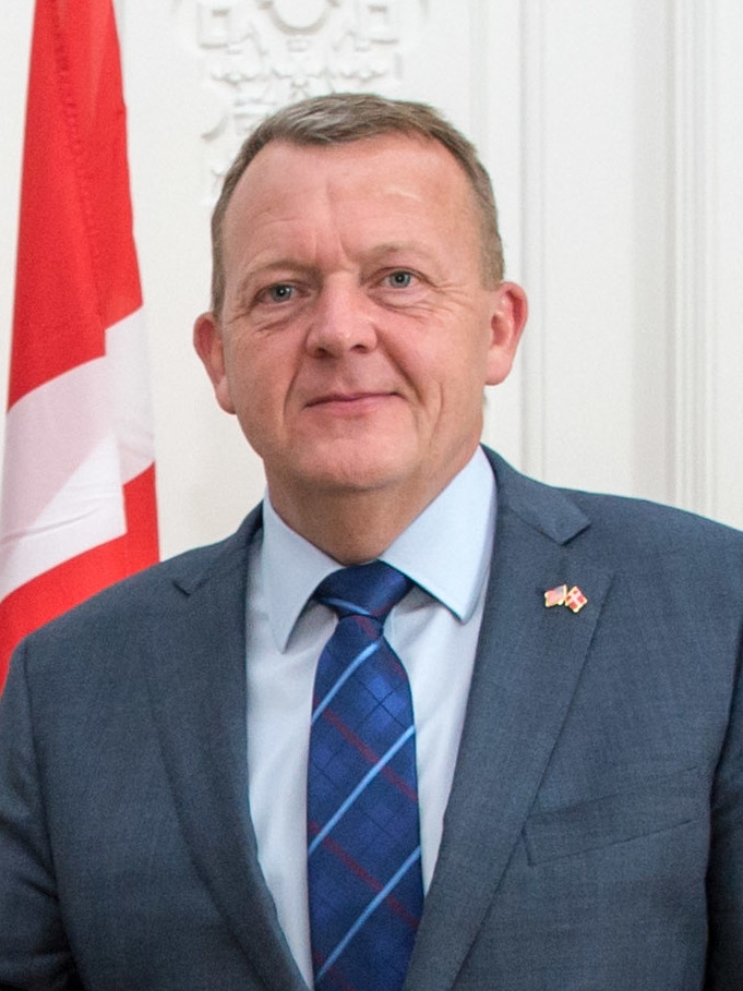 Secretary of Defense Jim Mattis meets with Lars Løkke Rasmussen, the prime minister of Denmark, at the Christiansborg Palace in Copenhagen, Denmark, May 9, 2017. (DOD photo by U.S. Air Force Staff Sgt. Jette Carr)